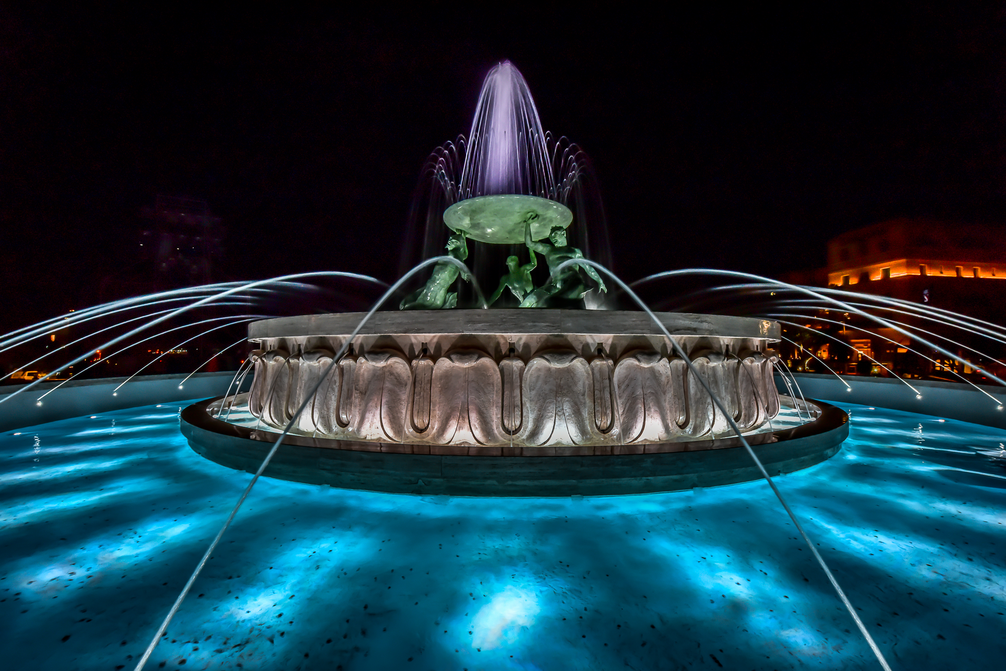 This media is about Maltese cultural property with inventory number 01143.